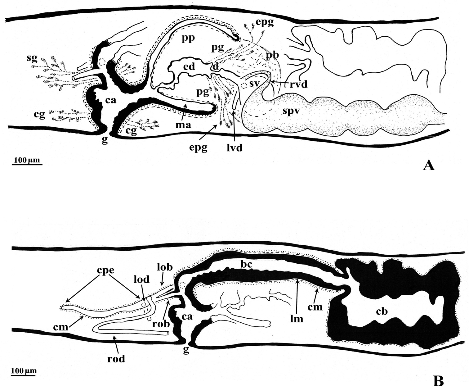 Dugesia bifida. Holotype ZMA V.Pl. 7189.1, sagittal reconstructions of the copulatory apparatus (anterior to the right), A male copulatory apparatus B female copulatory apparatus.